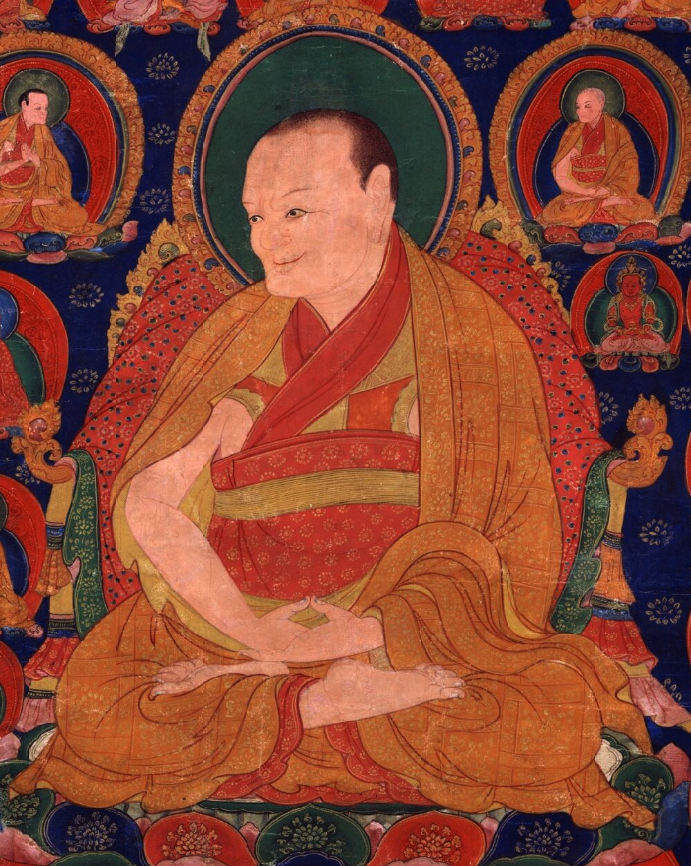 Sanggye Pel b.1339 - d.1432, Sakya lama